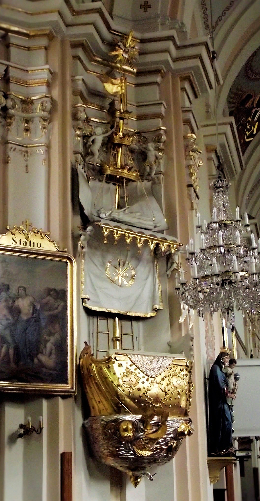 Pulpit in Catholic Providence Church in Bielsko-Biała.